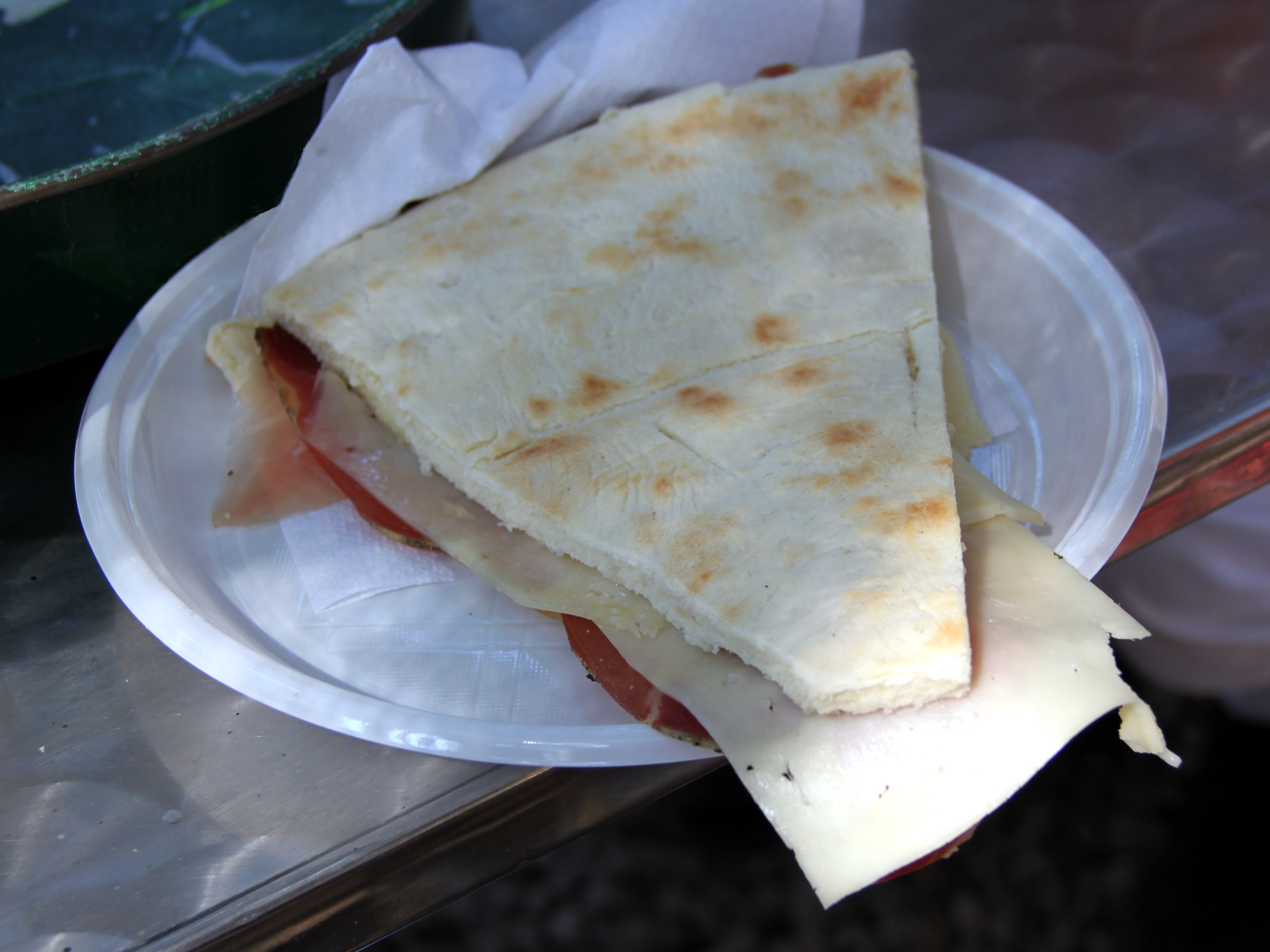 A section of a torta al testo with ham and cheese.